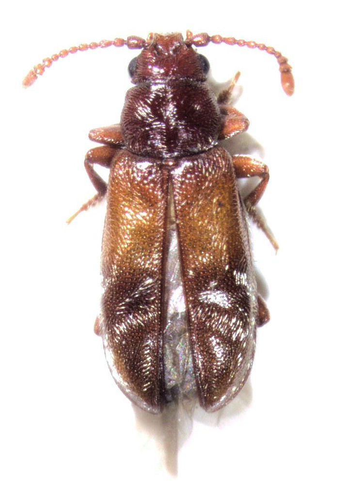 adult Taphropiestes electa